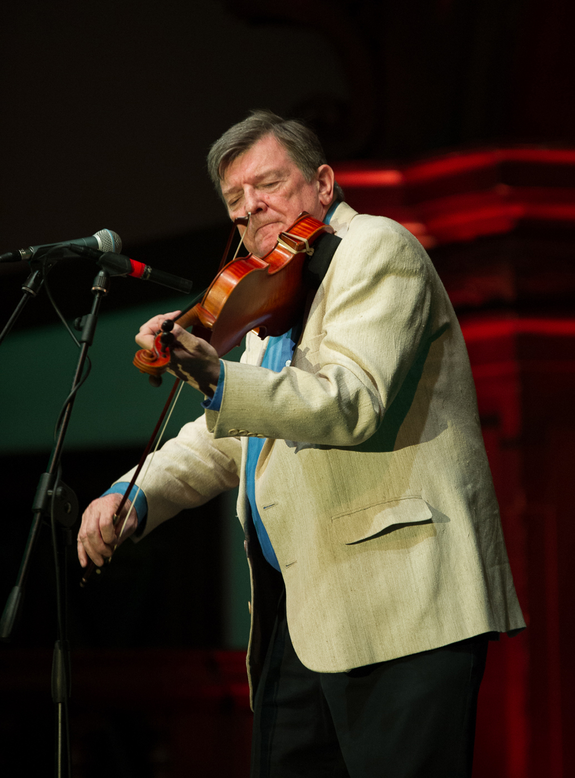 Kevin Burke performing live at The Abbey on O'Hanlon Place in Nicholls, Australia, 13 May 2014